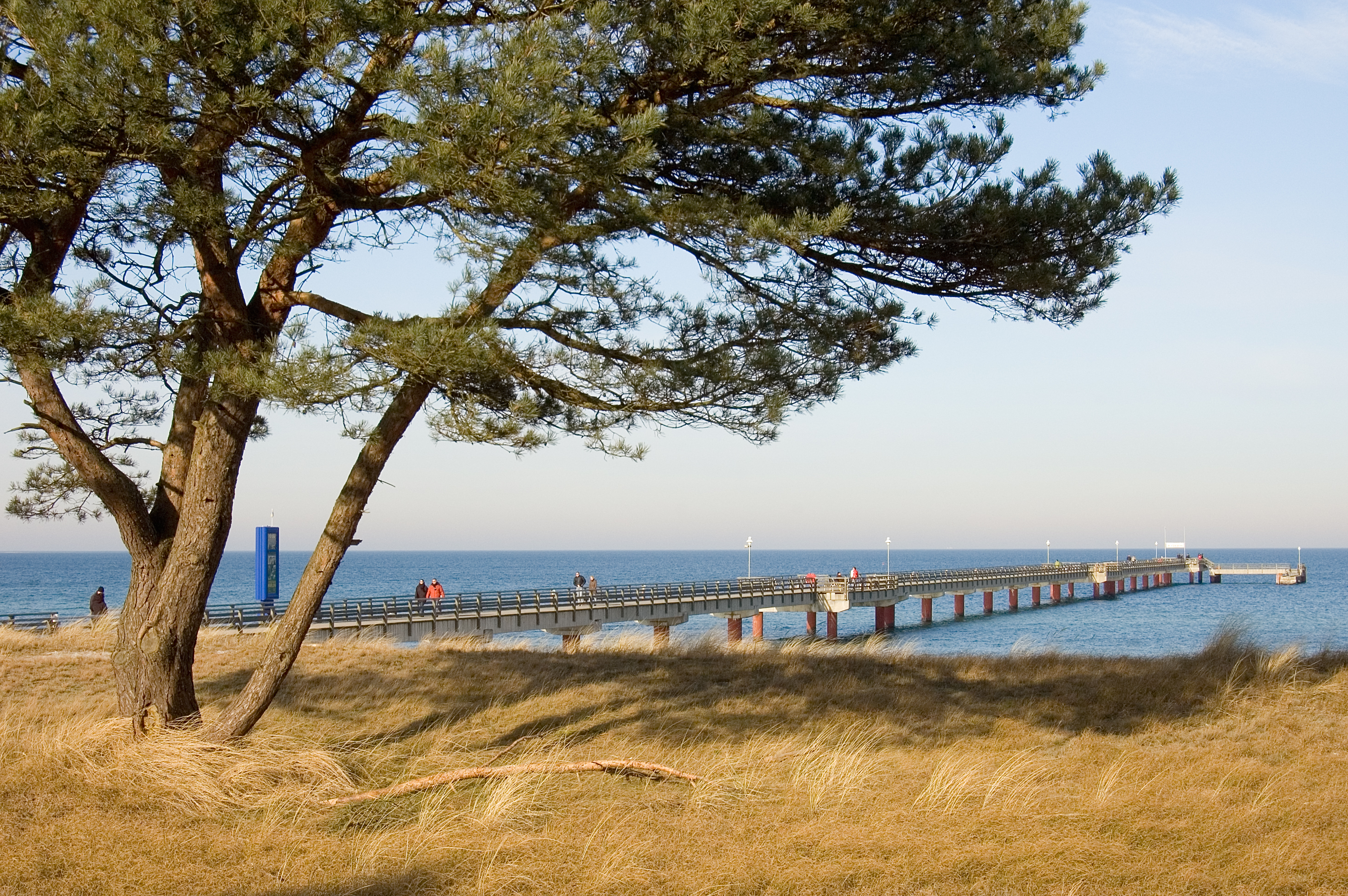 The pier of the seaside resort Prerow in Nordvorpommern, Germany